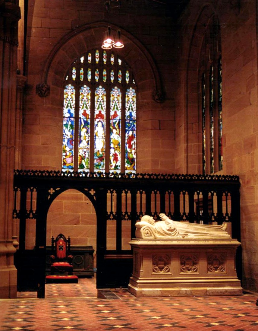 Sydney, St. Andrew's Anglican Cathedral,the monument of Bishop Broughton, the first Bishop of Sydney and founder of the Cathedral. This is a cast of the tomb which is in Canterbury Cathedral. He died while visiting England.